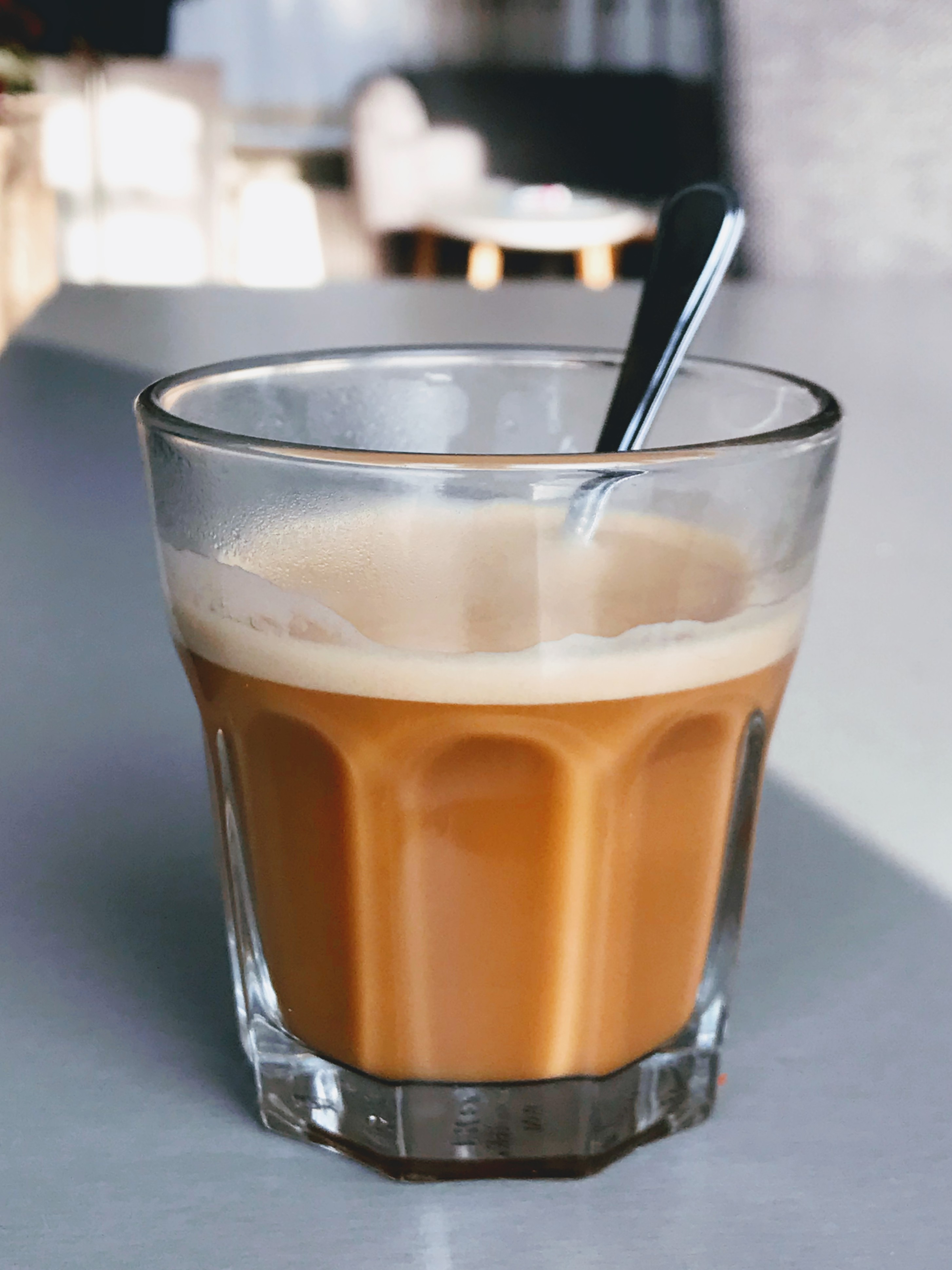 a glass of coffee